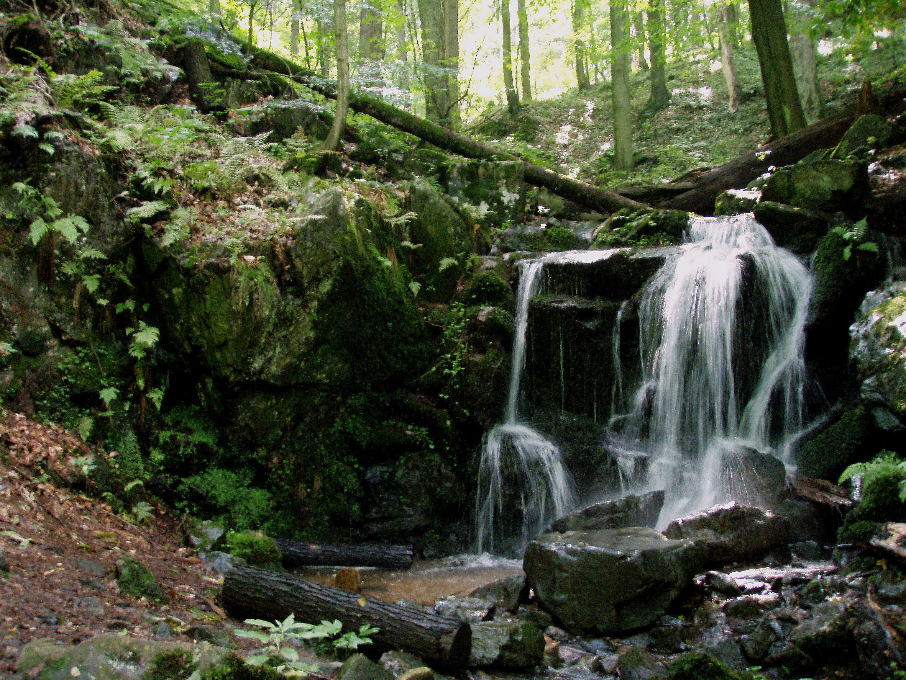 Nature reserve Krkanka in Chrudim District, Czech Republic